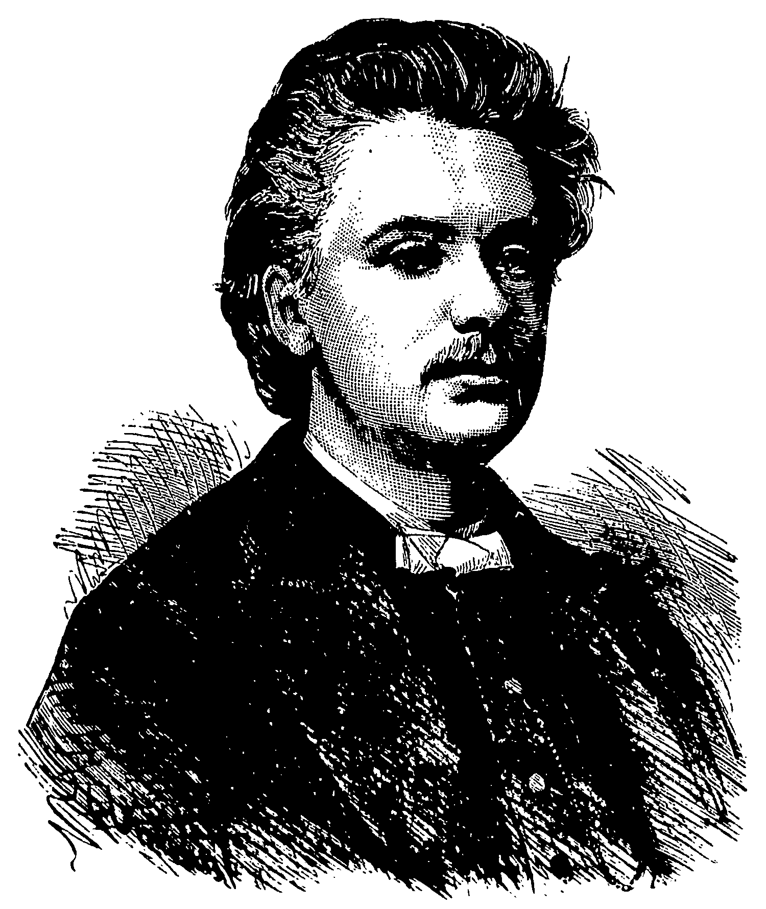 The Norwegian composer Edvard Grieg.